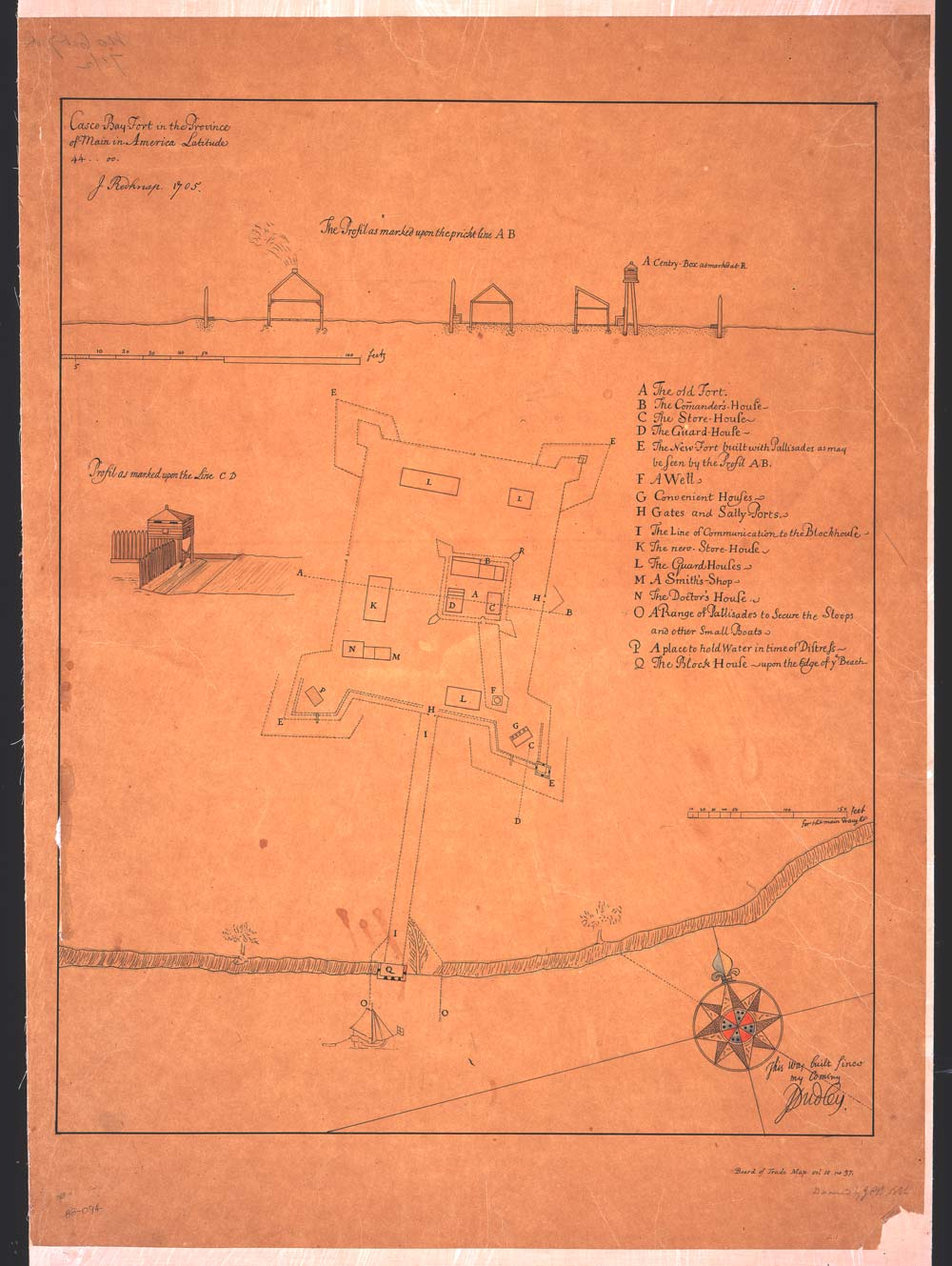 1705 cross-section and modern rendering Fort New Casco